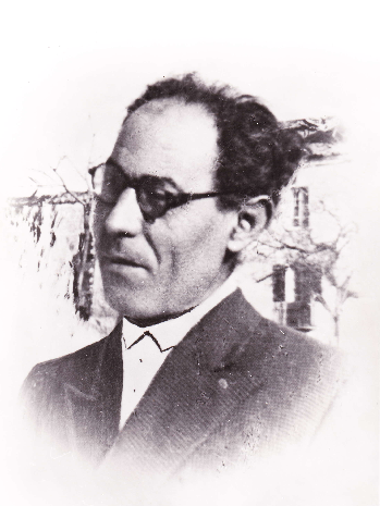 Foto personale dall'archivio Mura